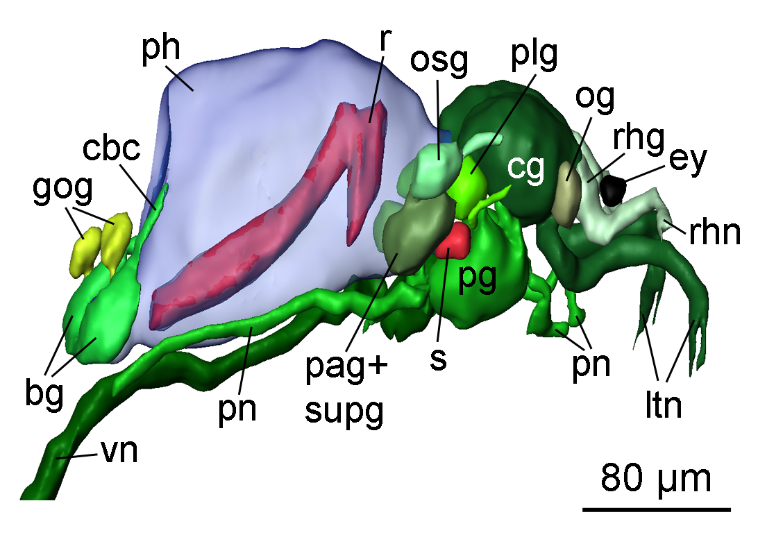 3D reconstruction of the right view of central nervous system with pharynx of small marine slug Pseudunela cornuta. It is a 3D model generated from 420 histological sections by segmentation and surface extraction. - The histological sections have been aligned and stacked together to form a 3D volume, which was then segmented. For each segment mathematical representation of its surface was generated (boundary surface extraction) and then this 3D model was visualized by rendering the surfaces.